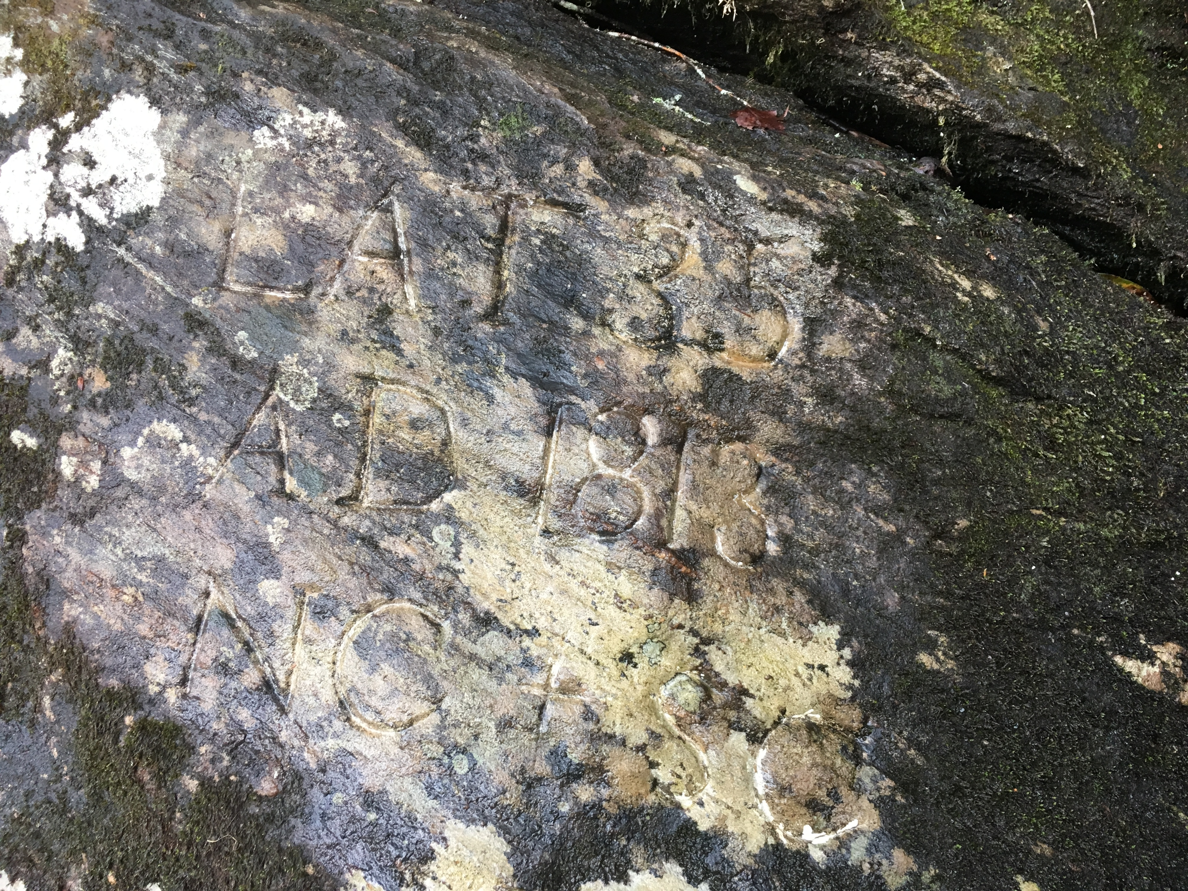 Commissioner's Rock was inscribed in 1813 and is located 10 feet upstream of Ellicott's Rock.